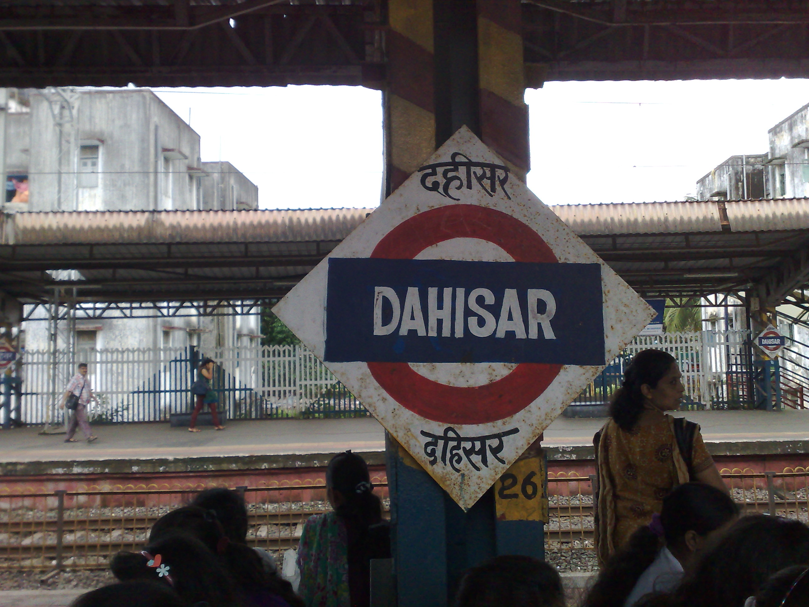 Dahisar Railway station stationboard